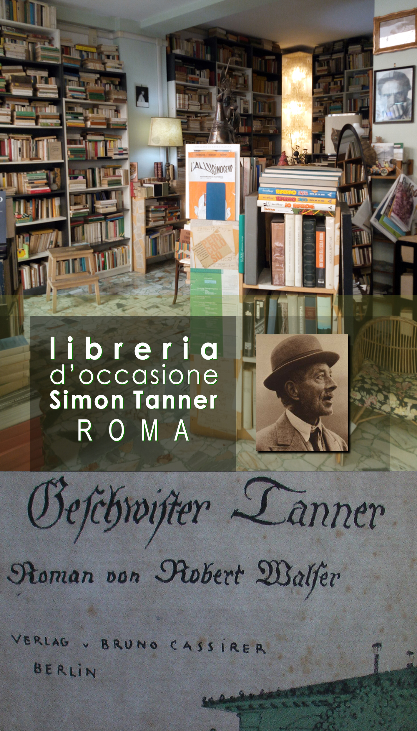 Bookshop Simon Tanner Rome